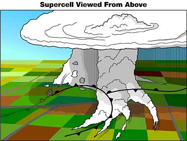 View of a tornadic supercell, showing inflow cumulus bands